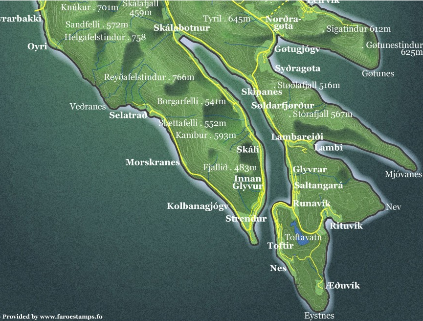 Southern part of Eysturoy/Faroe Islands with the Skálafjørður in the center of the map